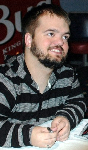 Hornswoggle at WWE Tribute to the Troops Event on December 10, 2011 in Fayetteville, North Carolina